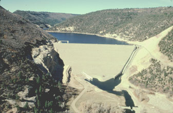 Mcphee Dam and Reservoir. U.S. Department of the Interior